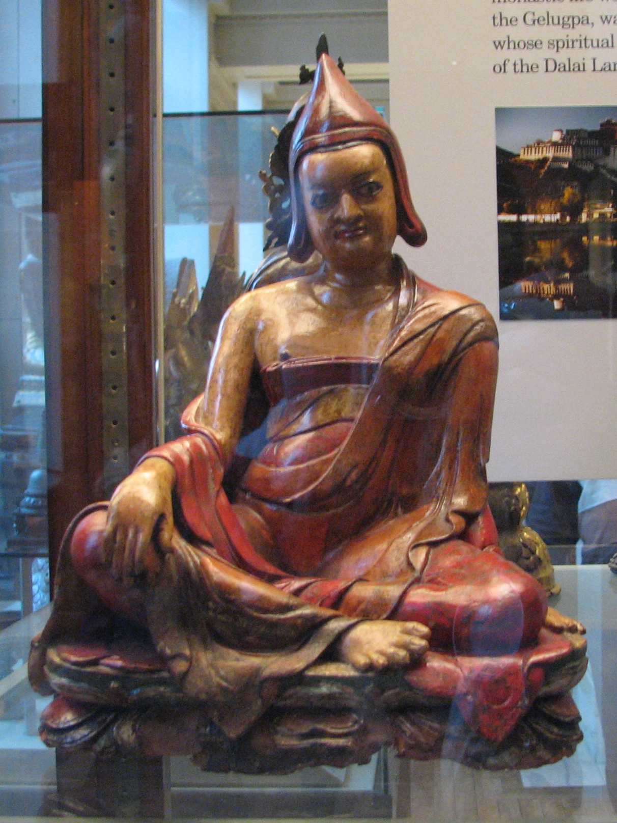 Figure of seated Lama; of painted and varnished papier-mâché; Tibet or perhaps Ladakh; 19th century AD, or erlier; now the British Museum